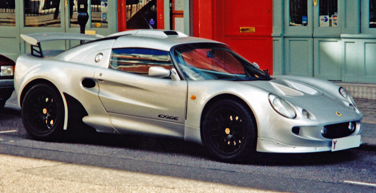 A 2001 Lotus Exige Series 1 in London